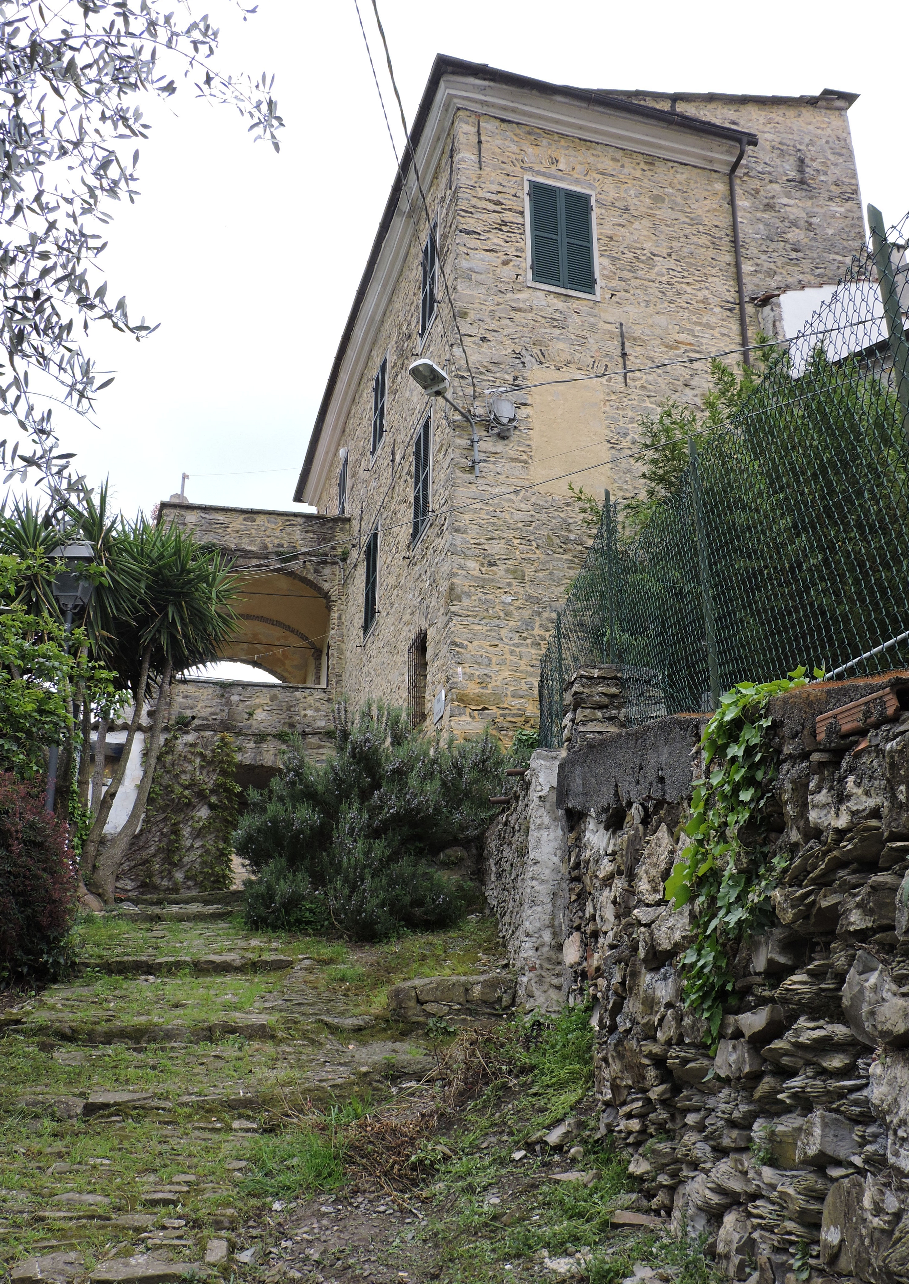 Maro Castello (Borgomaro, IM, Italy): pedestrian access to the village